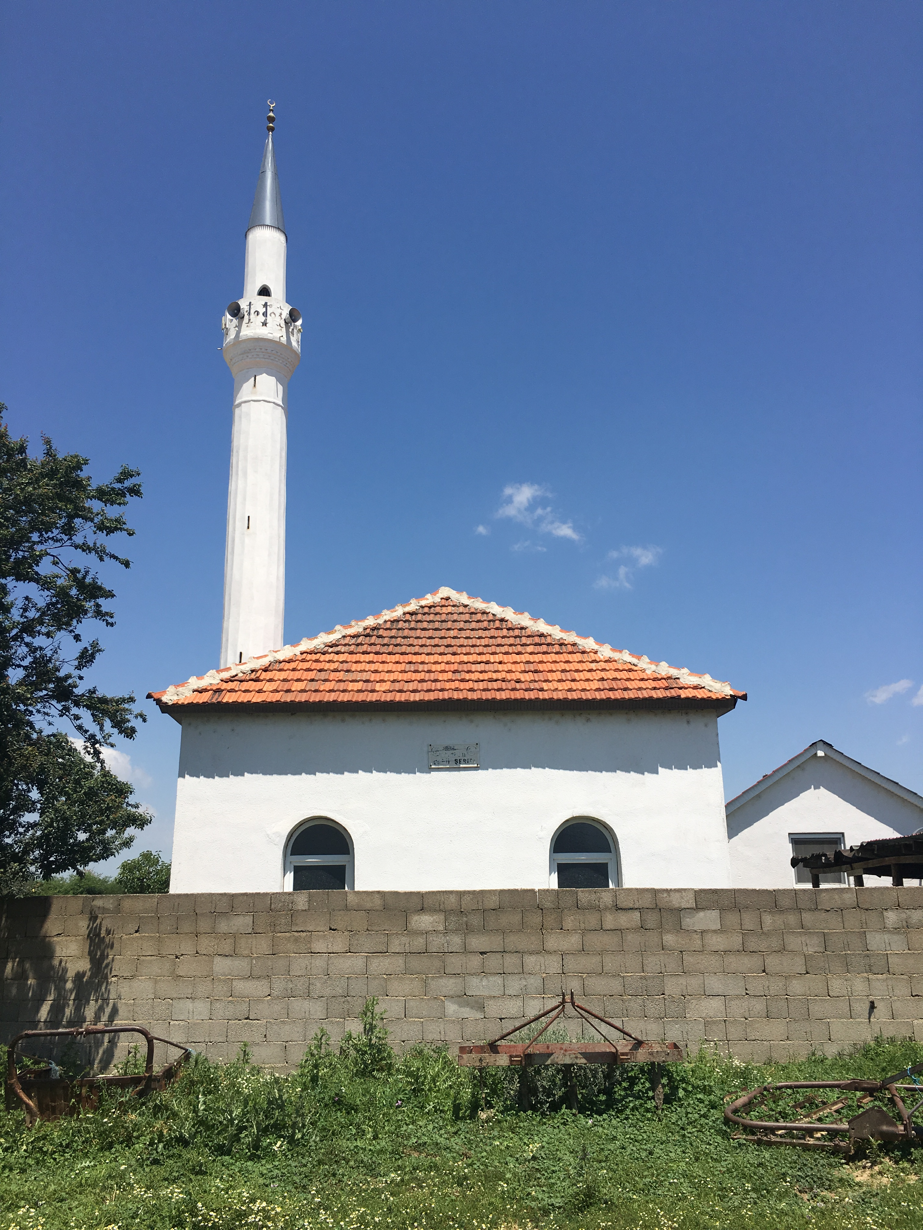 A mosque in the village of Budakovo